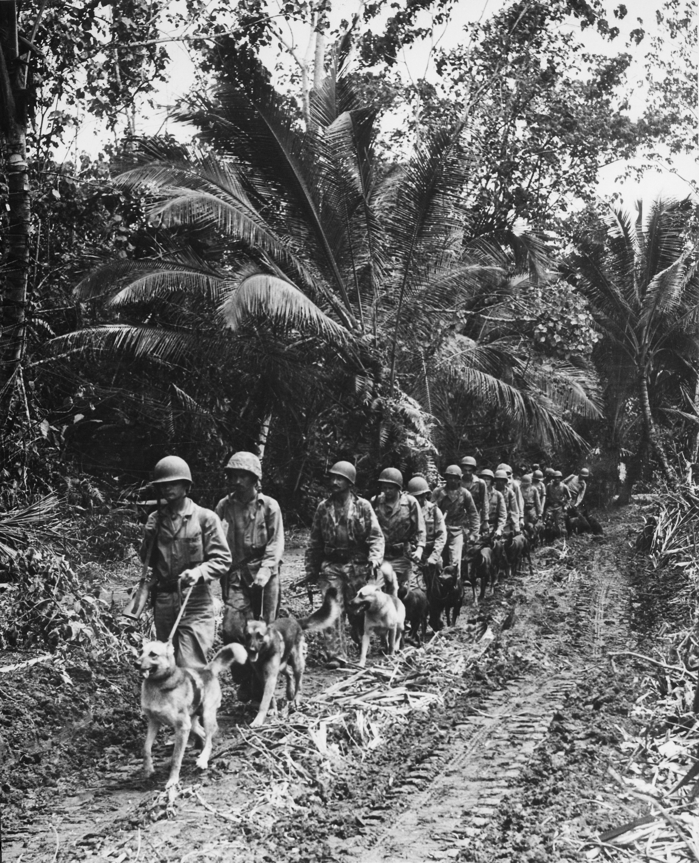 U.S. Marine `Raiders' and their dogs, which are used for scouting and running messages, starting off for the jungle front lines on Bougainville. Photo by T.Sgt. J. Sarno, ca. November/December 1943. Source: US Marines